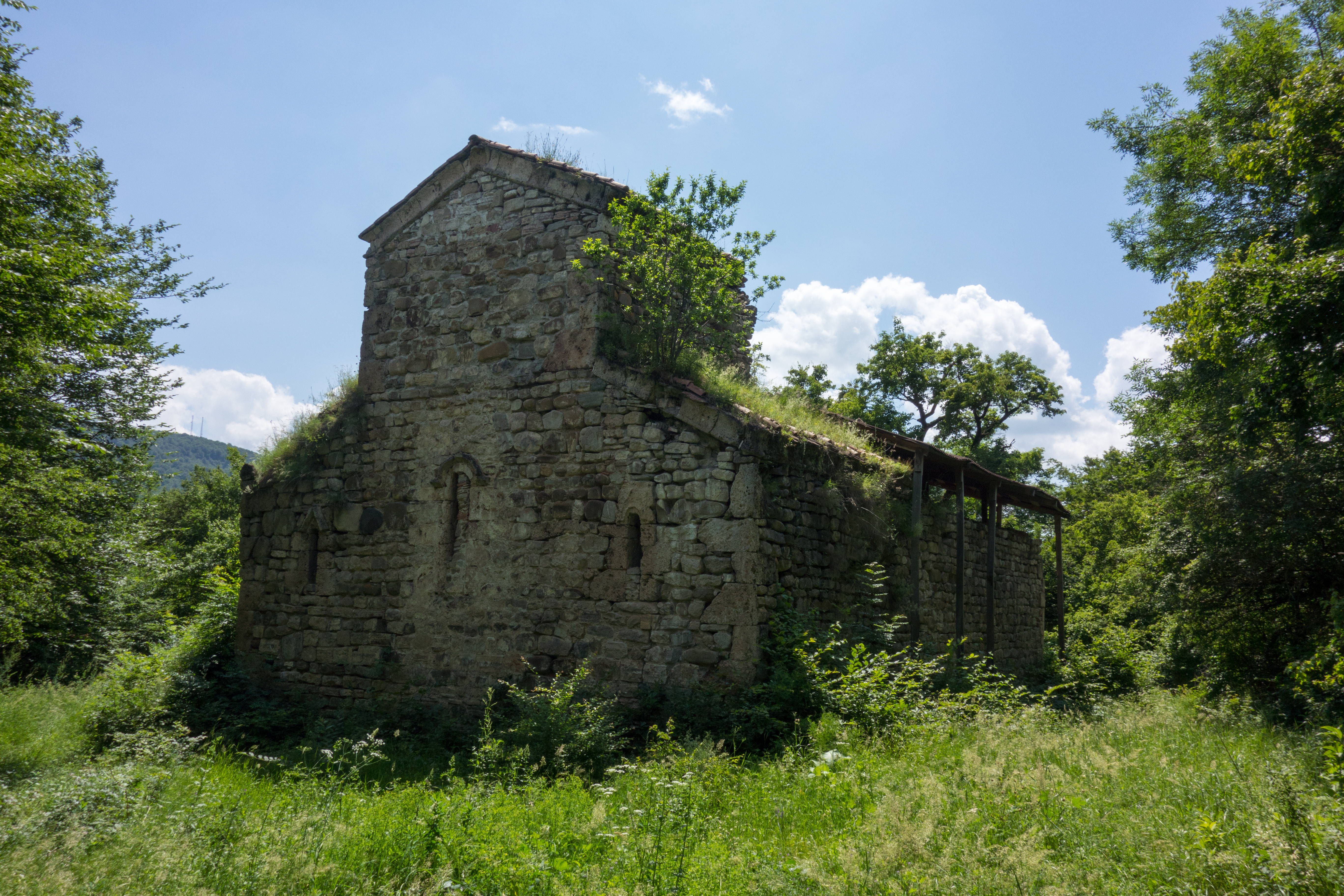 Zhaleti Church (on the right bank of Iori), Mtskheta-Mtianeti, Georgia